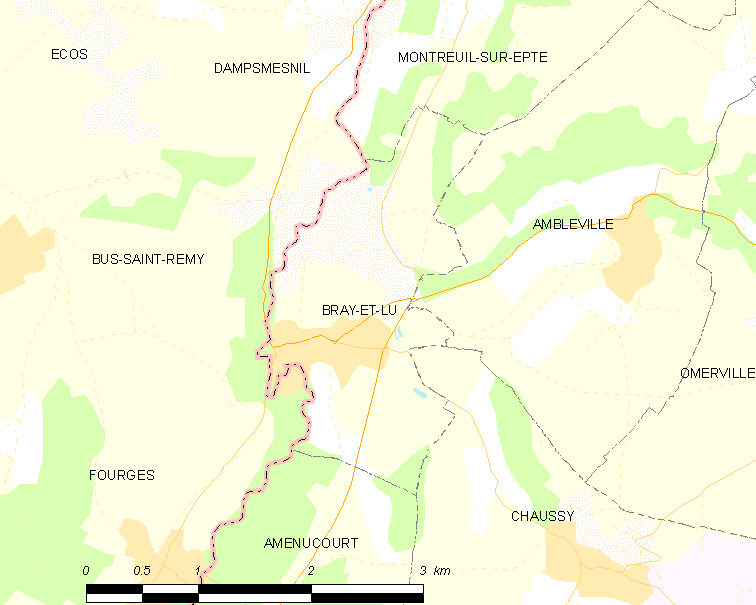 Map of French municipality Bray-et-Lû